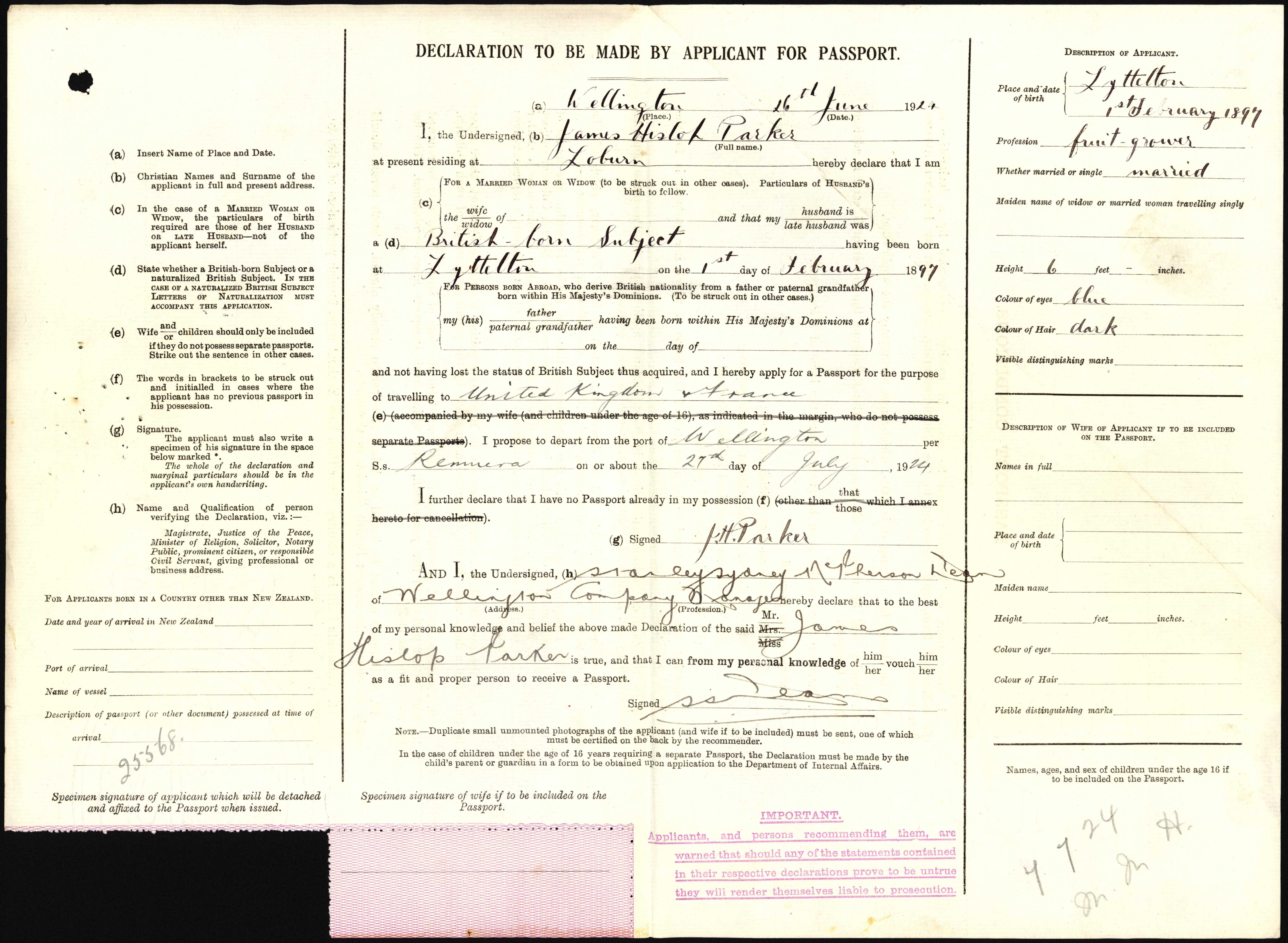 ACGO 8333 IA1 1349 / 15/11/17721 James Hislop Parker passport application (1924)